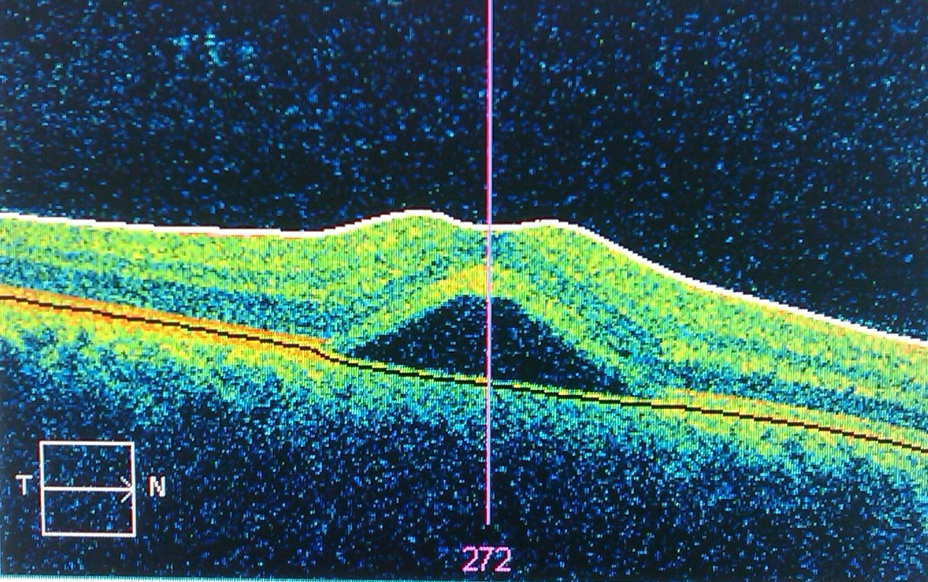 This an occurance of central serous retinopathy in my retina, imaged using optical coherence tomography with a Zeiss Visante OCT machine. Unfortunately, the software does not allow easy export of the data, so this is a cameraphone picture of the display.